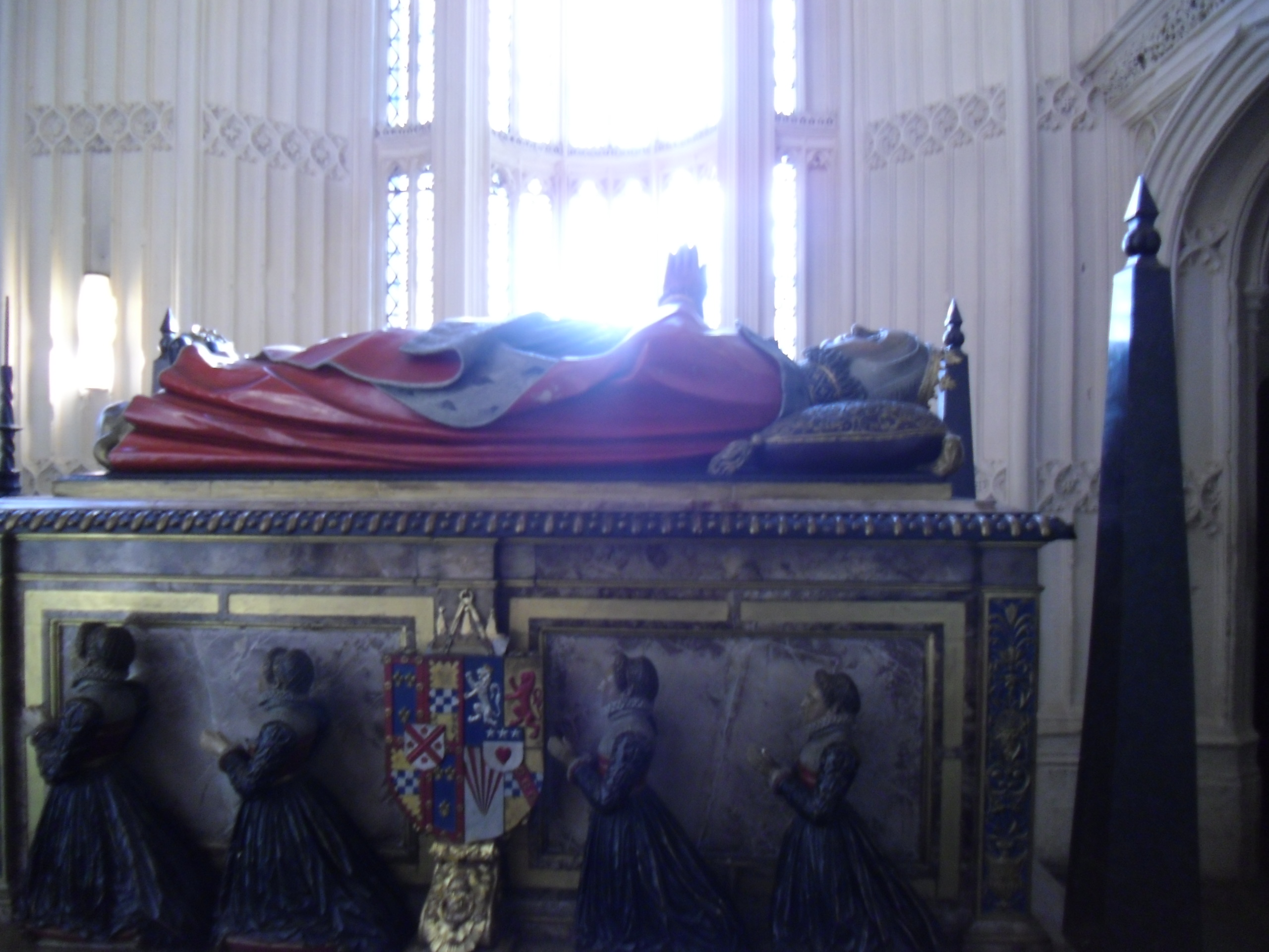 Tomb of Margaret Douglas, Countess of Lennox at Westminster Abby. This side shows her daughters who were either stillborn or died shortly after birth. Their effigies are actually the only evidence of their very existence, since no christenings or names are registered anywhere.